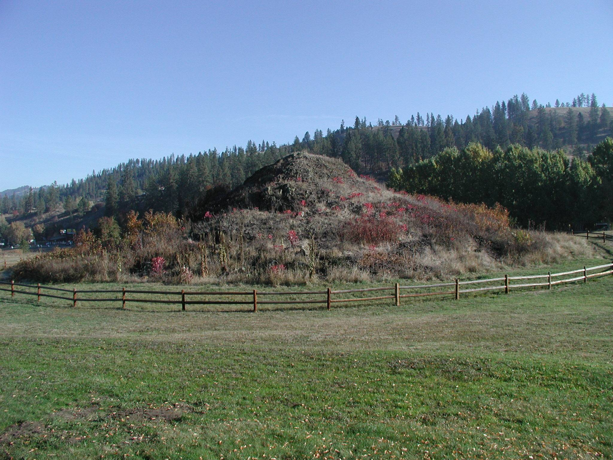 The heart of the monster, a place near East Kamiah, Nez Perce County, Idaho, USA. This hill is sacred to the Nez Percé people, as it is associated with their creation myth. The hill symbolizes the heart of the monster that had to be slain by the trickster Coyote, before people could come to life and live safely on earth. The site is part of Nez Perce National Historical Park.